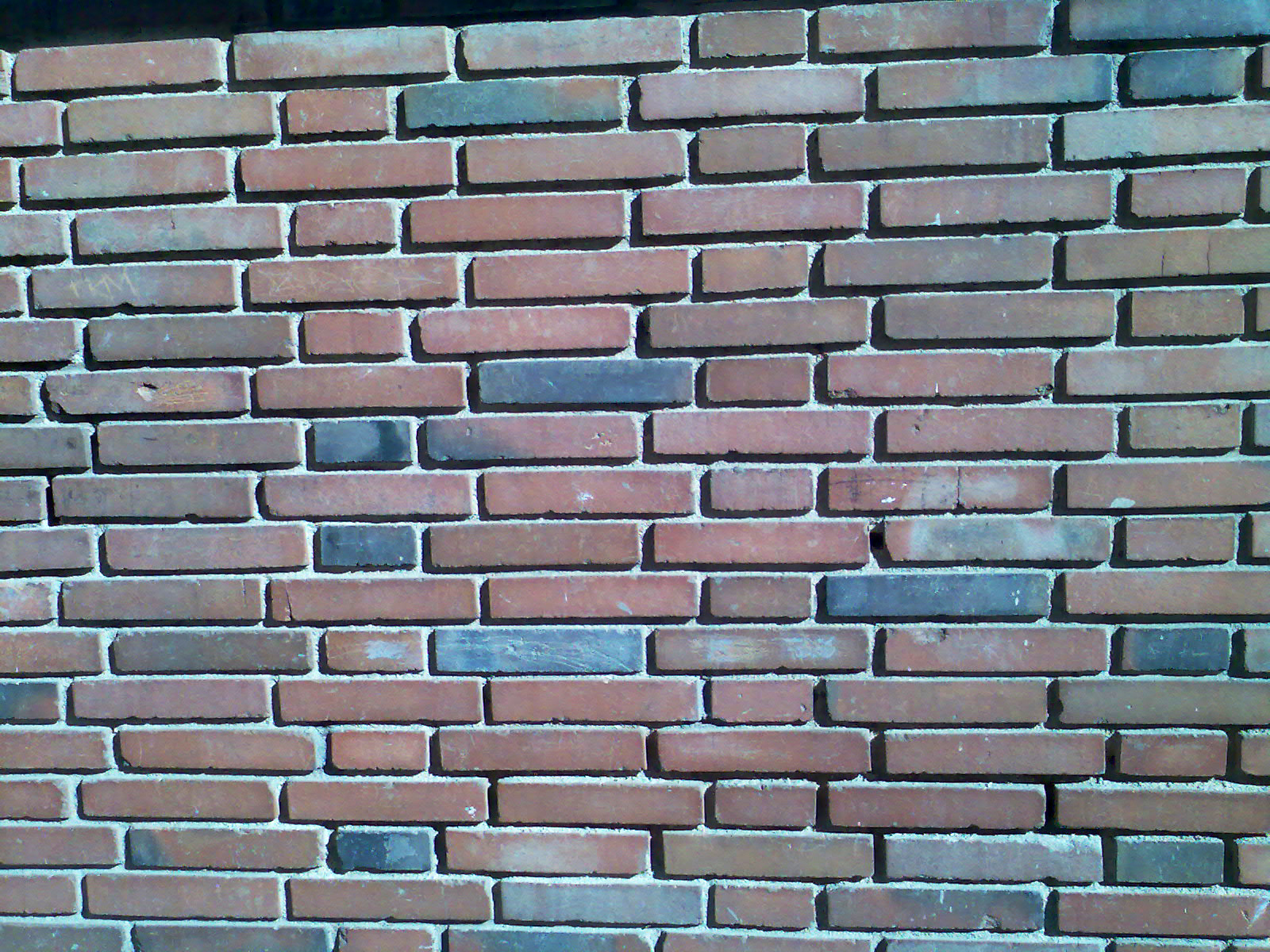 Madrid, Spain. Brick wall, constructed with "Silesian bond".